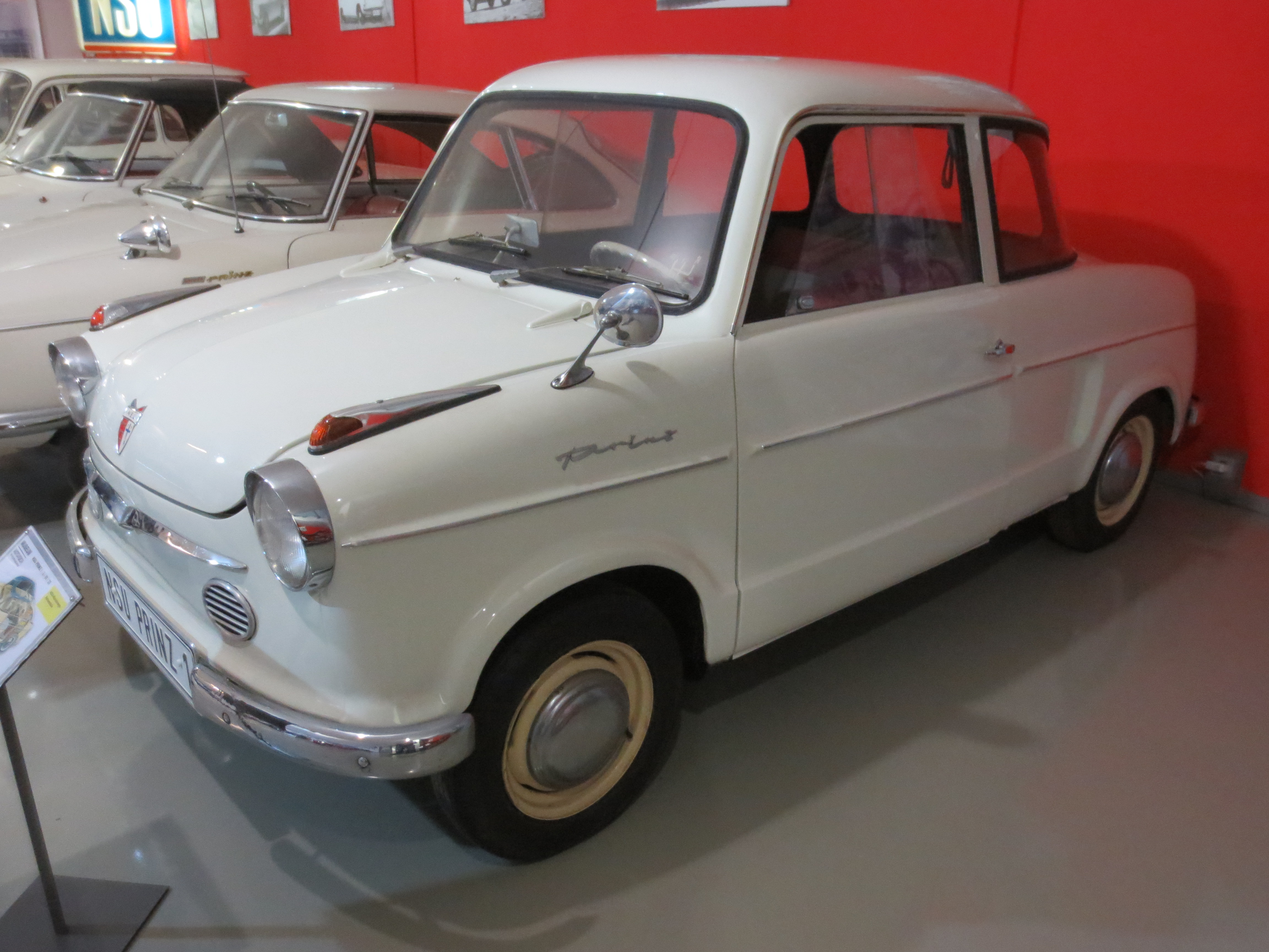 Subject: NSU Prinz I Author: Luc106 Date:October 9th, 2014 Place/Country: Autovision Museum, Altlußheim (Deutschland) I release all rights in the public domain. Licensing